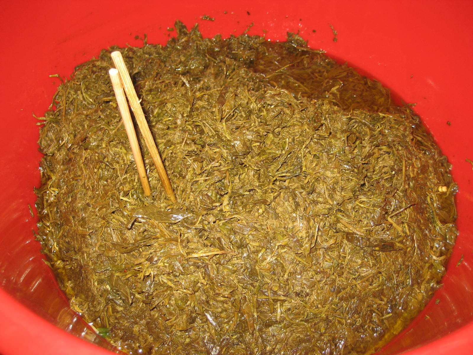 Lahpet sold at a market in Mandalay, Myanmar